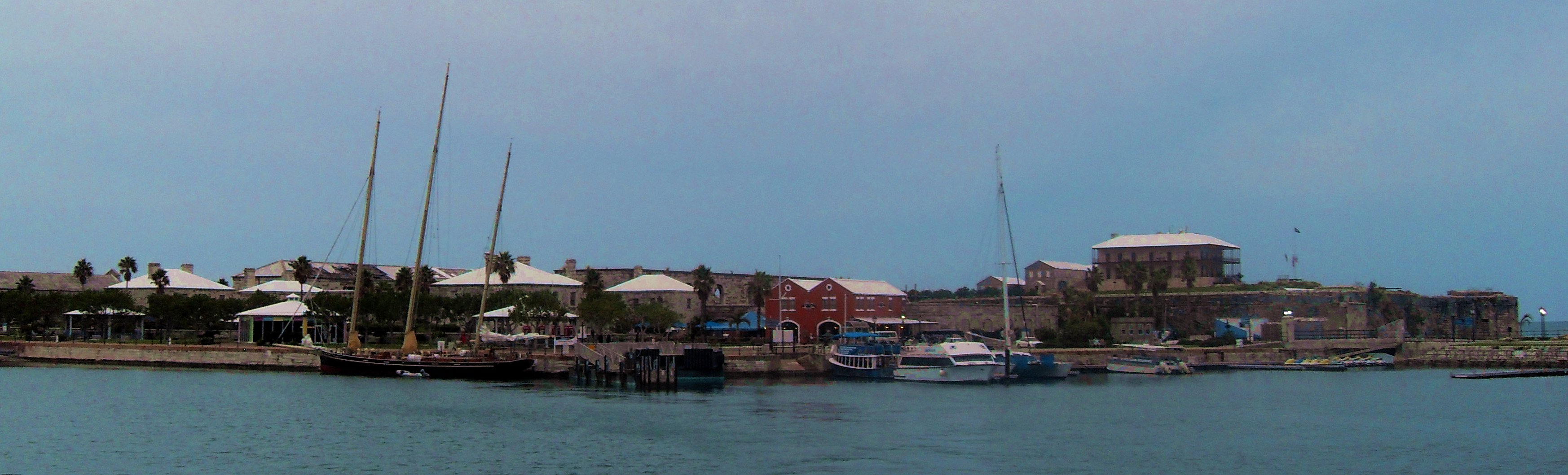 On the right is the fortress Keep with the Commissioner's House, now the Bermuda Naval Museum, towards the left other buildings of the dockyard and the schooner "Spirit of Bermuda"